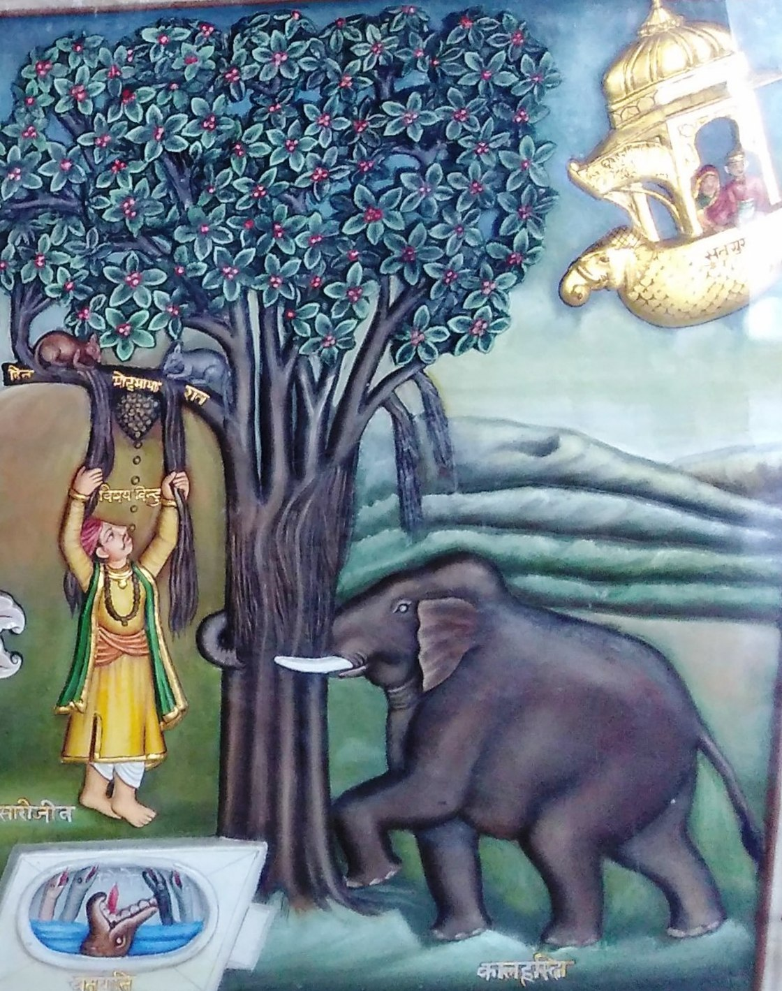 Saṃsāra The man symbolizes transmigratory souls (Saṃsāri Jivas) The elephant - death Four snakes- Four passions (Anger, Pride, Deceit, Greed)